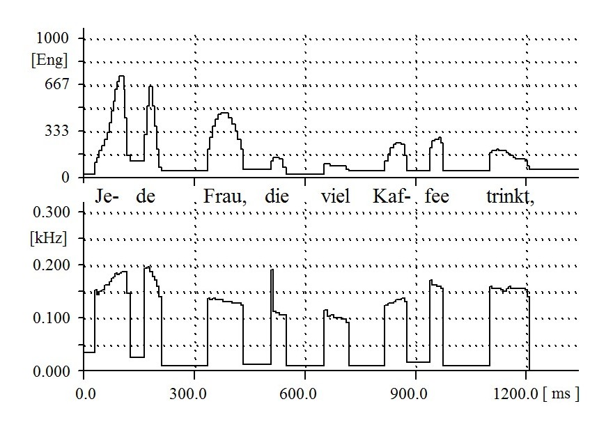 Intonation of German restrictive relative clauses from Snježana Kordićʼs book Relativna rečenica, Zagreb 1995, diagram on p. 91 or its German translation: Der Relativsatz im Serbokroatischen, Munich 1999, diagram on p. 76